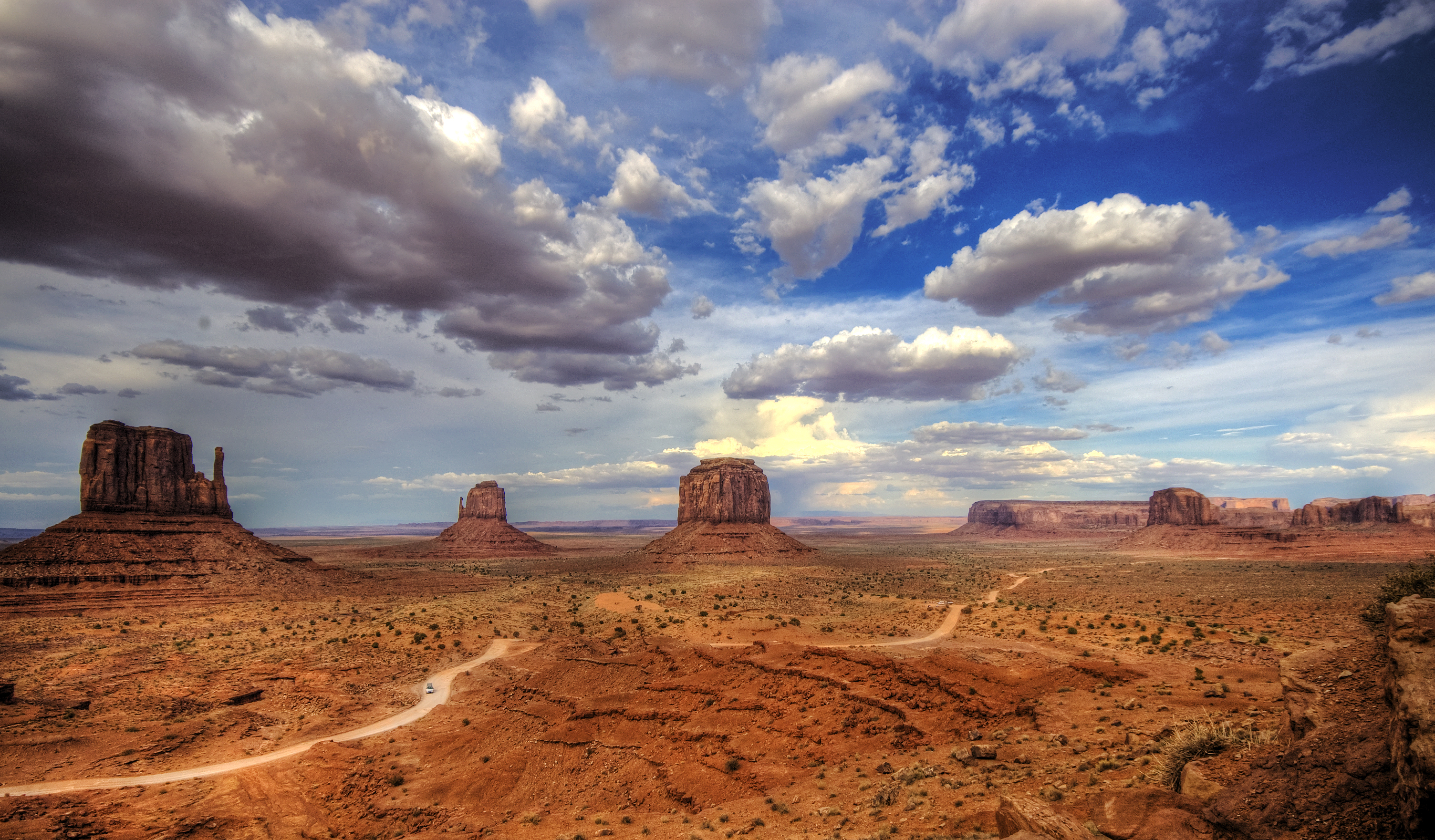 Monument Valley is located on the southern border of Utah with northern Arizona. The valley lies within the range of the Navajo Nation Reservation, and is accessible from U.S. Highway 163. The Navajo name for the valley is Tsé Bii' Ndzisgaii (Valley of the Rocks). The area is part of the Colorado Plateau. The floor is largely Cutler Red siltstone or its sand deposited by the meandering rivers that carved the valley. The valley's vivid red color comes from iron oxide exposed in the weathered siltstone. The darker, blue-gray rocks in the valley get their color from manganese oxide. The buttes are clearly stratified, with three principal layers. The lowest layer is Organ Rock shale, the middle de Chelly sandstone and the top layer is Moenkopi shale capped by Shinarump siltstone. The valley includes large stone structures including the famed Eye of the Sun. From Wikipedia, the free encyclopedia